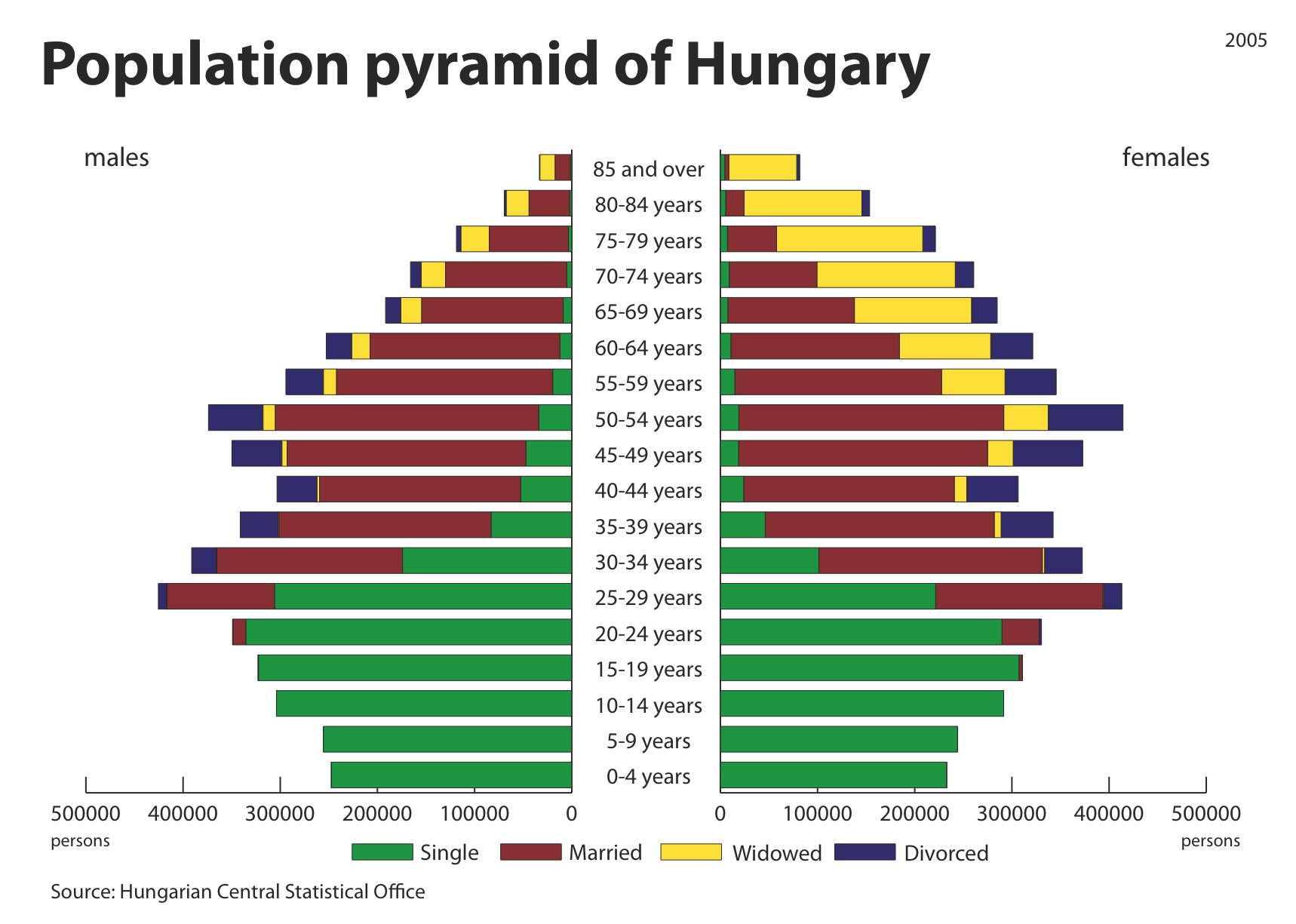 Population pyramid of Hungary in 2005. Data from Hungarian Central Statistical Office Micro Census 2005.